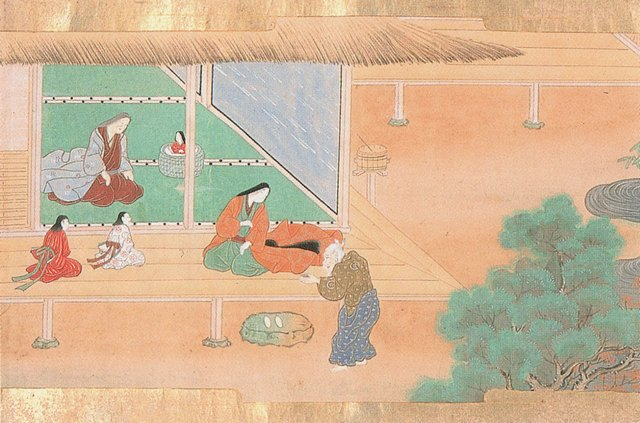 Taketori Monogatari (竹取物語, The Tale of the Bamboo Cutter)